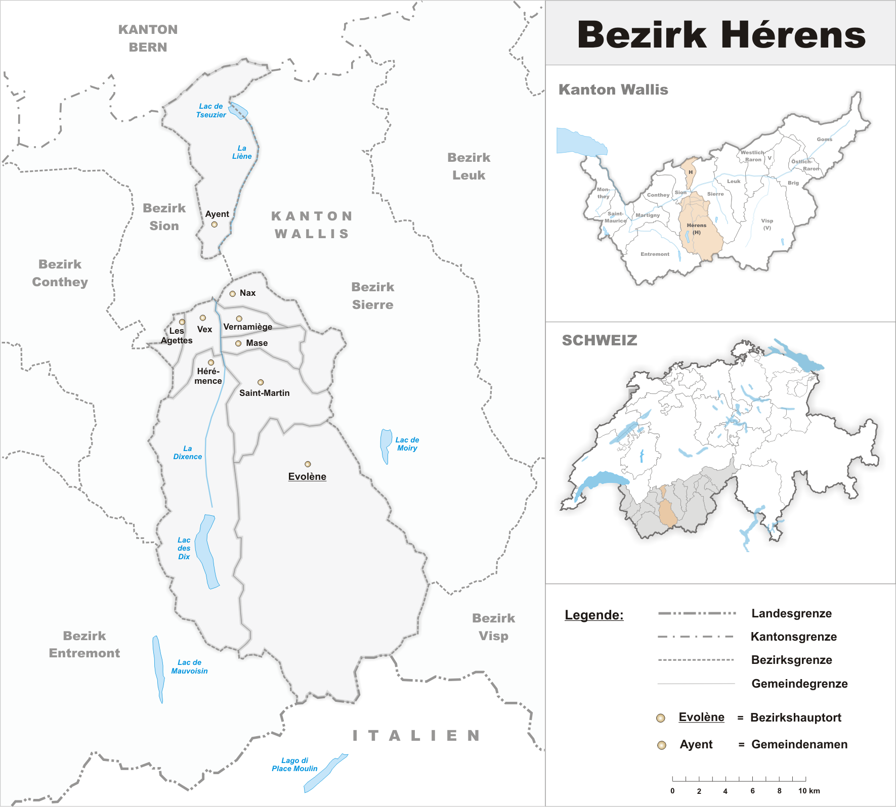 Municipalities in the district of Hérens